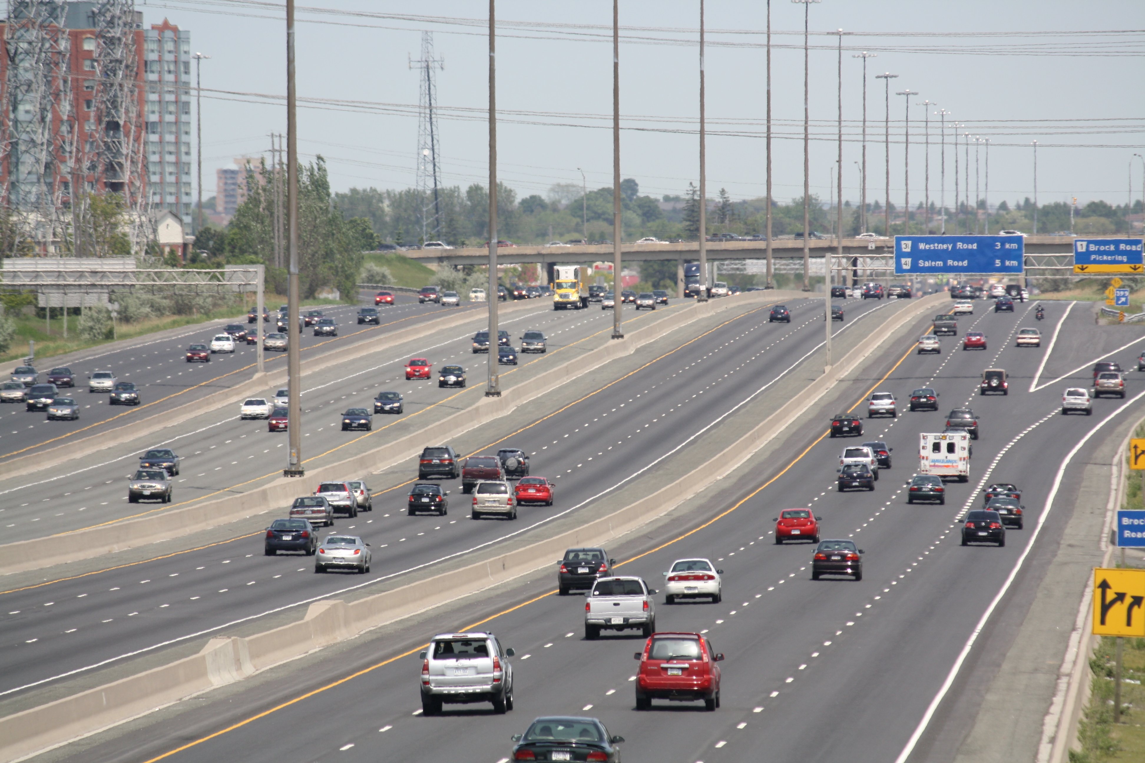 Overview of Highway 401's 4 carriageway cross section.